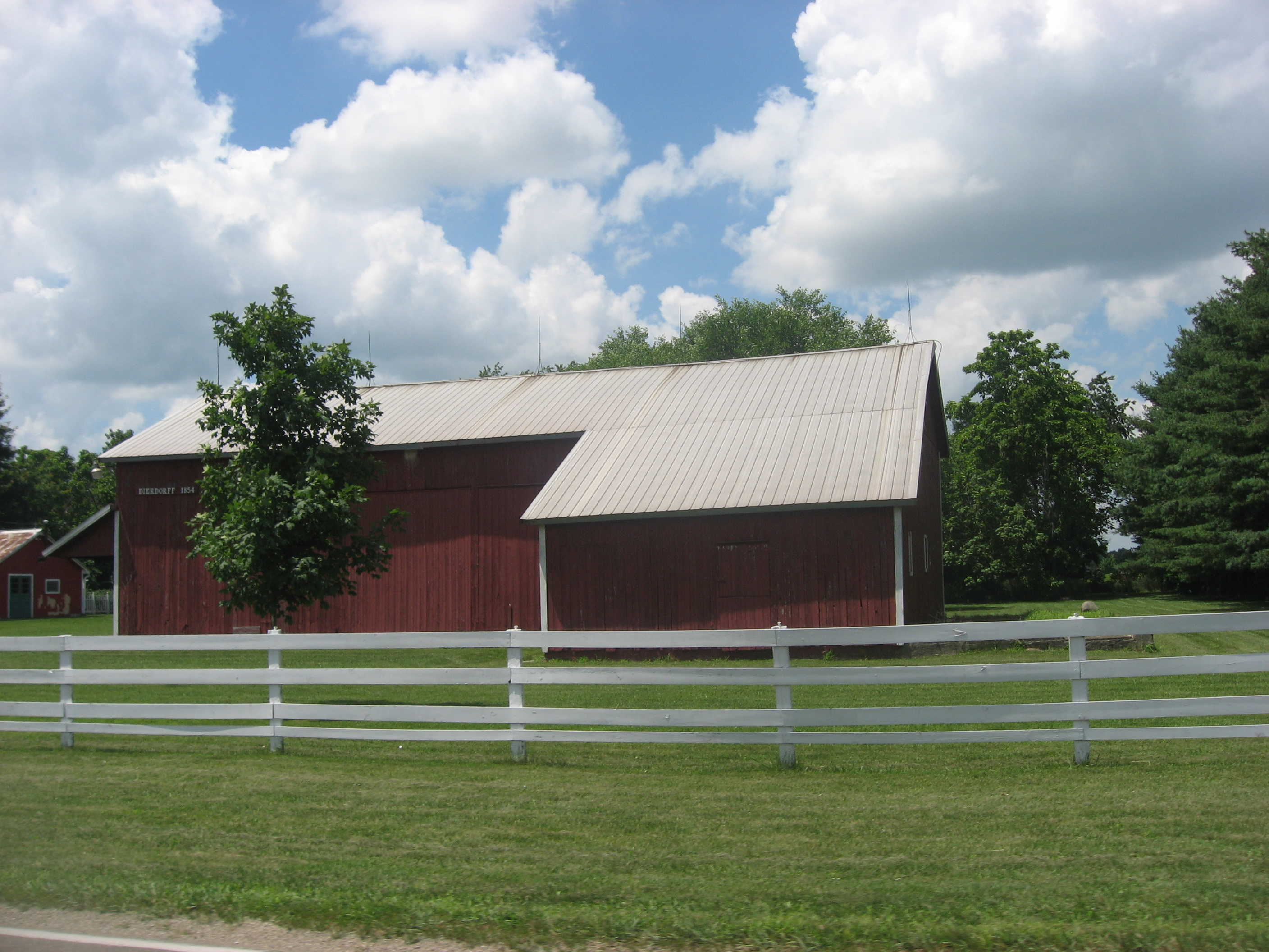 A barn at the Dierdorff Farmstead, located at 2055 Dierdorff Road southeast of Goshen in Elkhart Township, Elkhart County, Indiana, United States. Built in 1854 and later modified, the barn is listed on the National Register of Historic Places along with the rest of the farmstead.